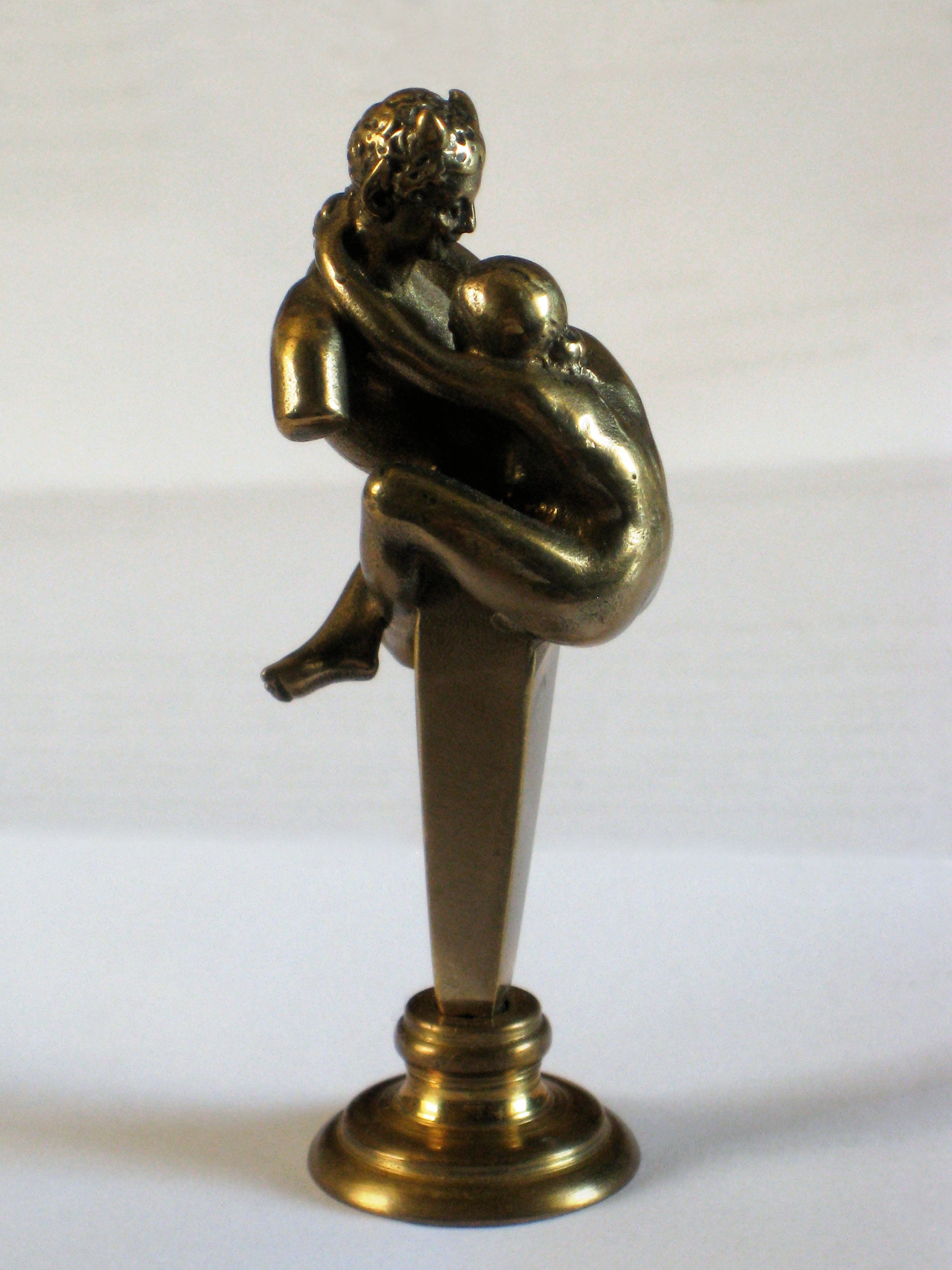 seal for documents.Produced by investment casting for tiny parts. Copper-alloy